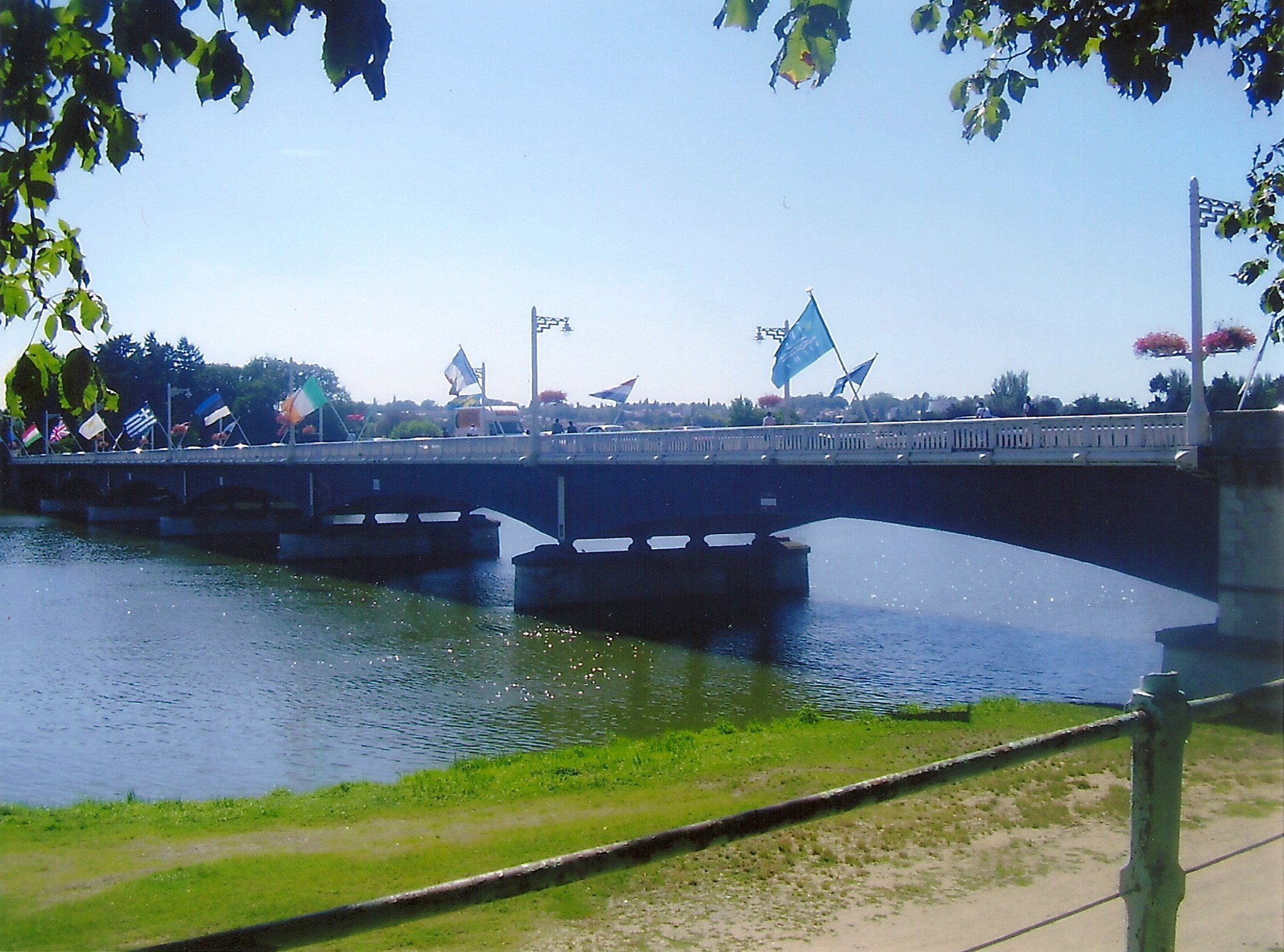 Bellerive's bridge seen from Parks Vichy. This image has been scanned with GIMP.